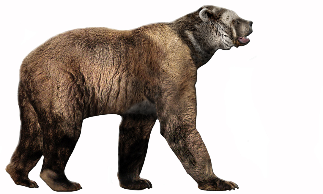 Arctodus simus reconstruction isolated on white.